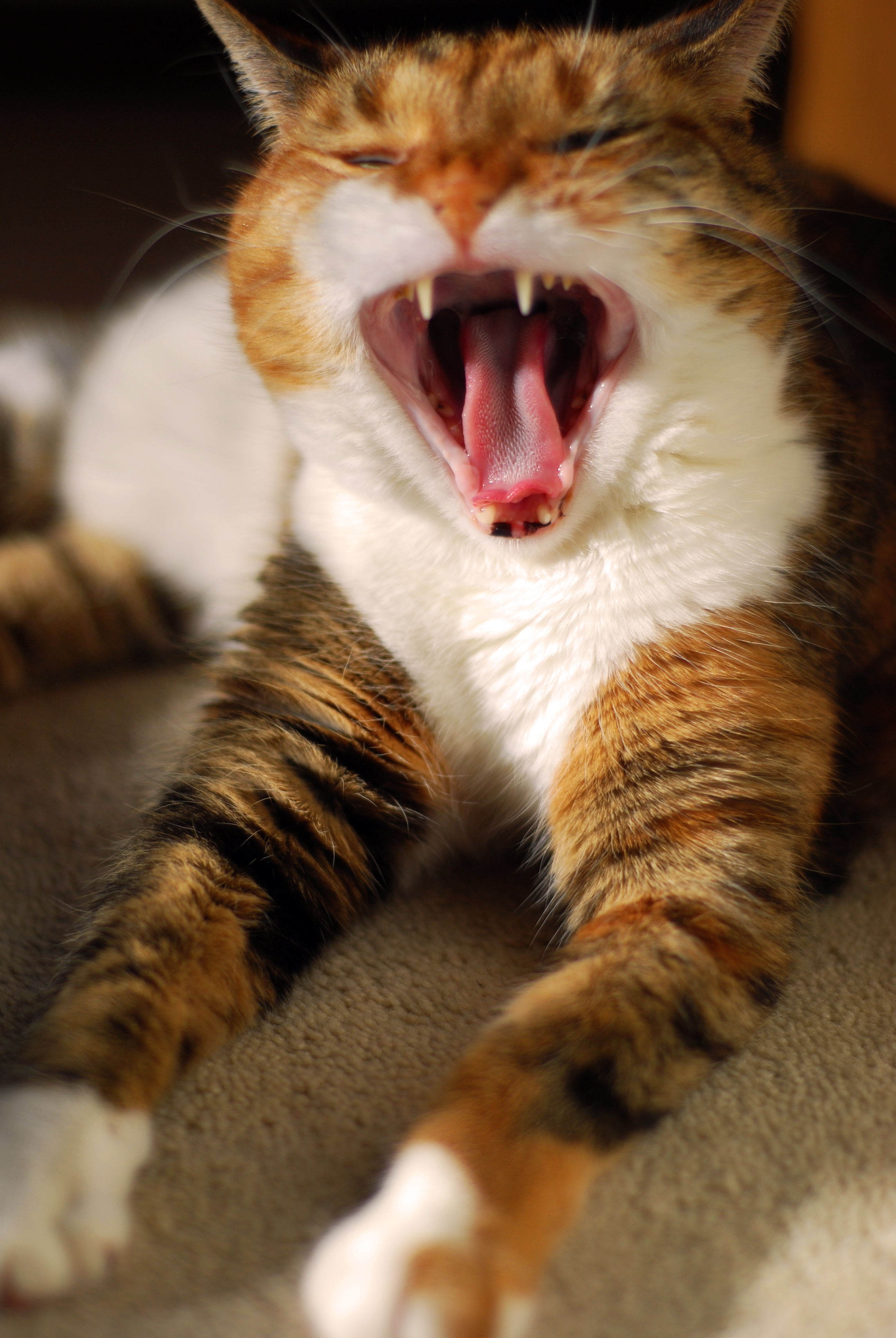 A 13 year old Tortoiseshell cat yawns.